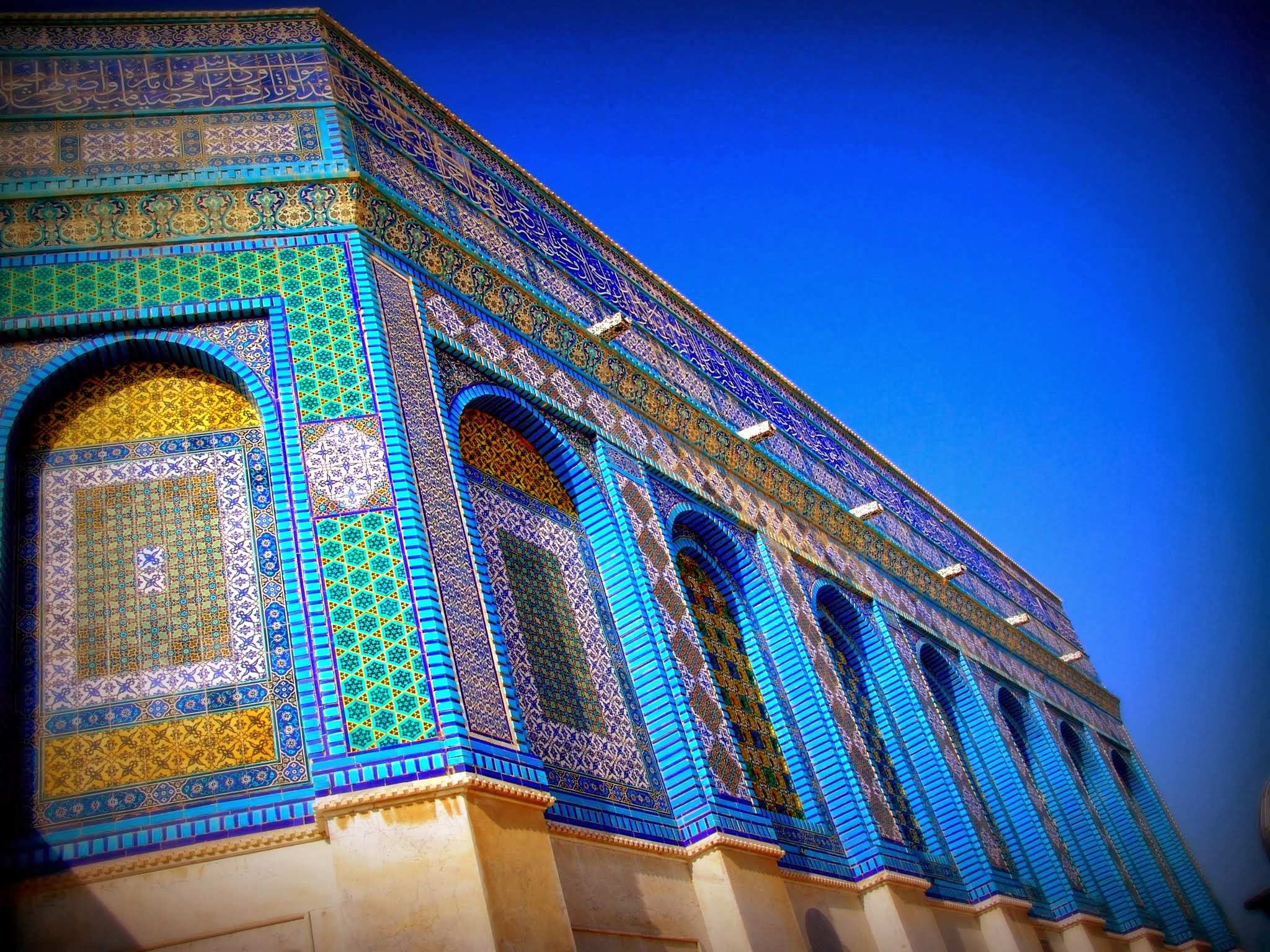 Qubbat As-Sakhrah (detail)